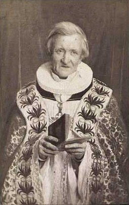 Hardenack Otto Conrad Laub (1805-1882), Danish bishop